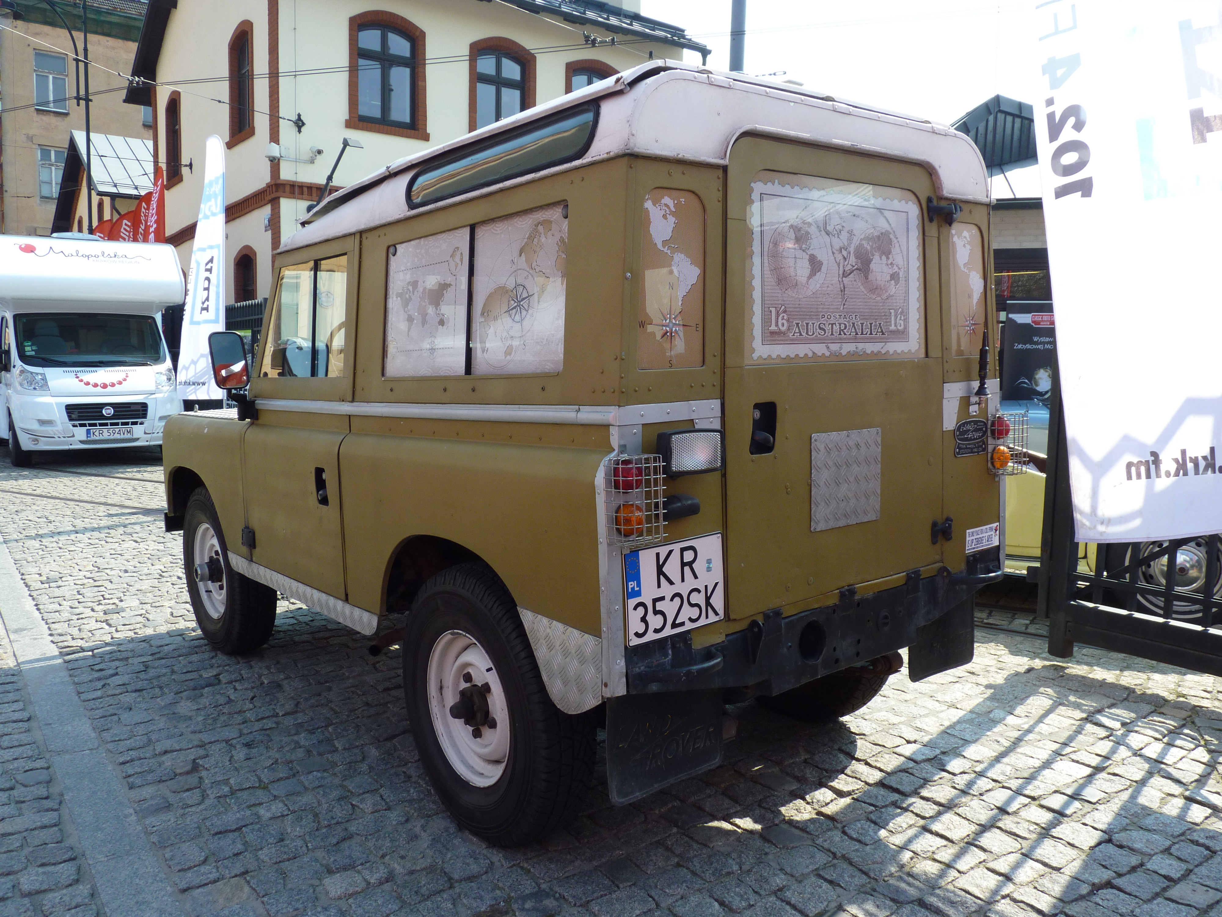 Classic Moto Show 2014 in Kraków